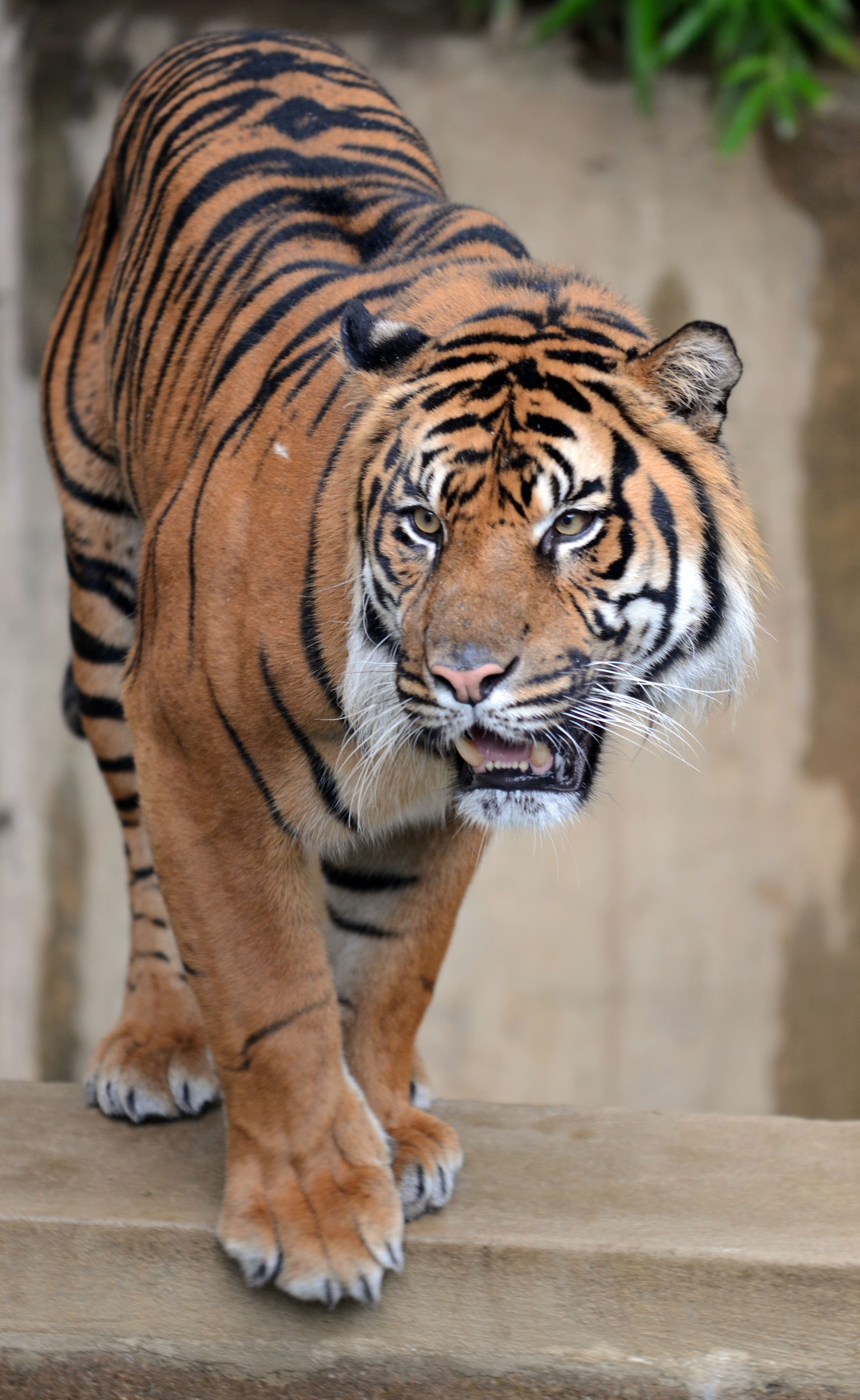 Credit: USFWS